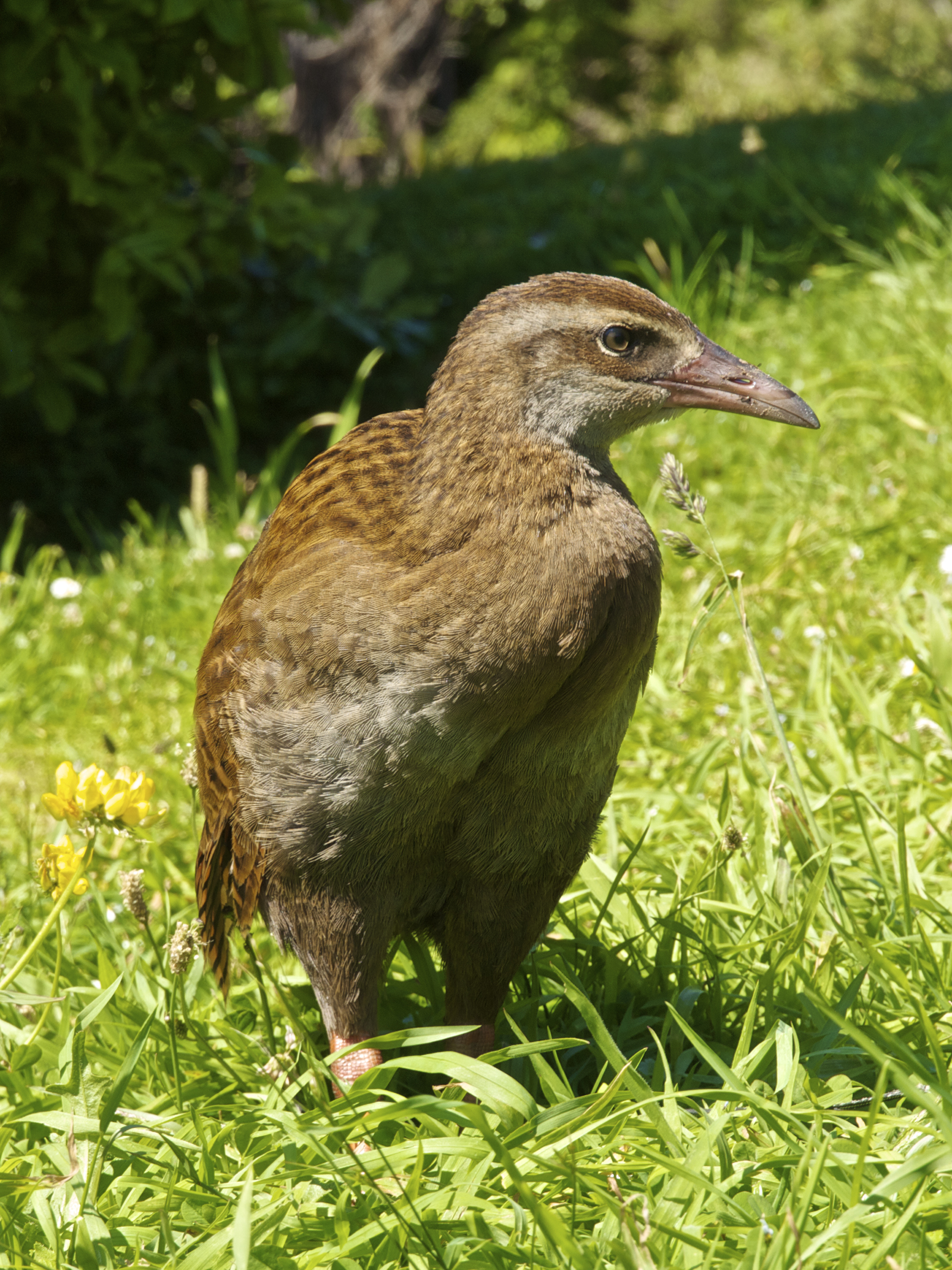 Weka (Gallirallus australis) near Punakaiki, New Zealand